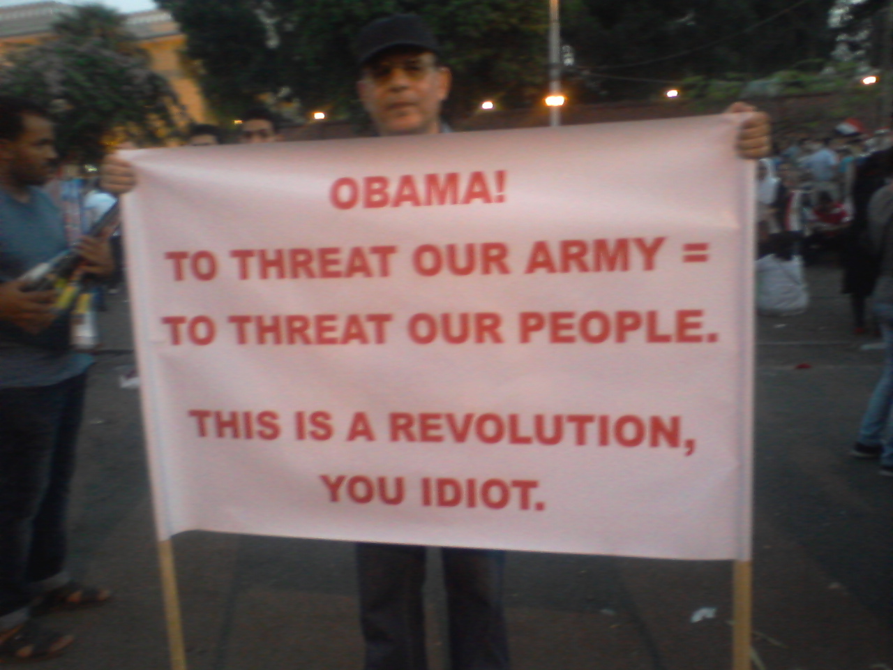 Egyptian demonstrator in 30 June Egyptian demonstrations to change regime